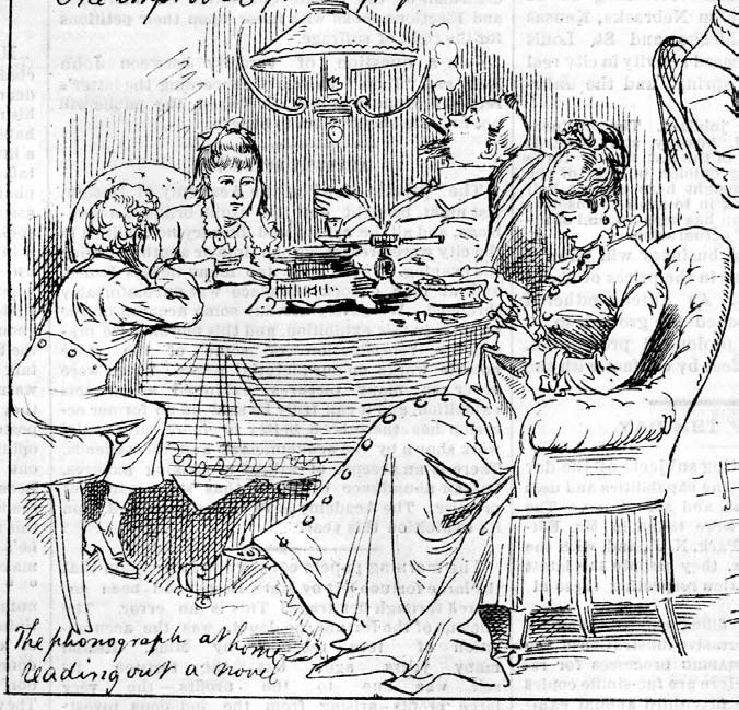 "The phonograph at home reading out a novel." From 'The Papa of the Phonograph,' Daily Graphic (New York), April 2, 1878, 1 (The Western Reserve Historical Society, Cleveland, Ohio).